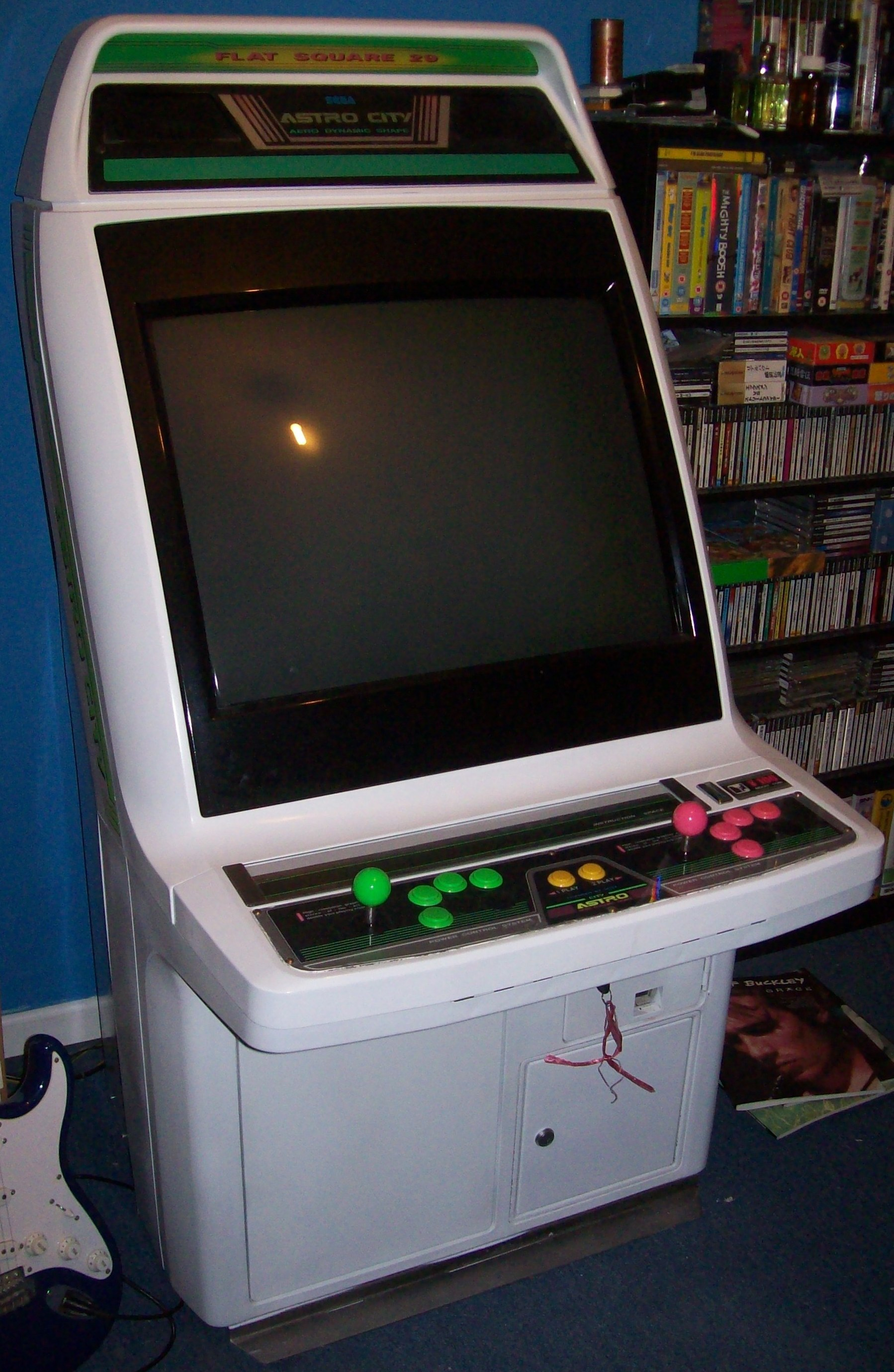 a picture of the real arcade cab